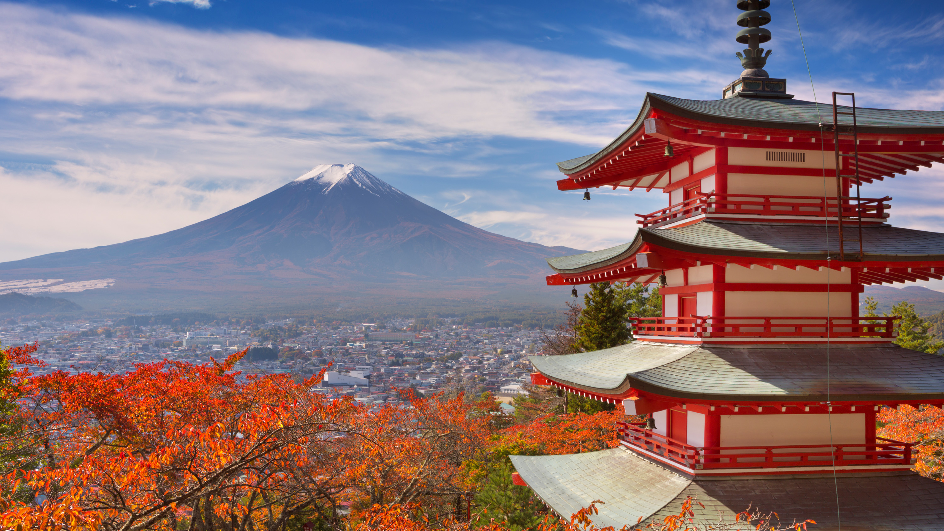 12-Chureito-pagoda-and-Mount-Fuji-Japan